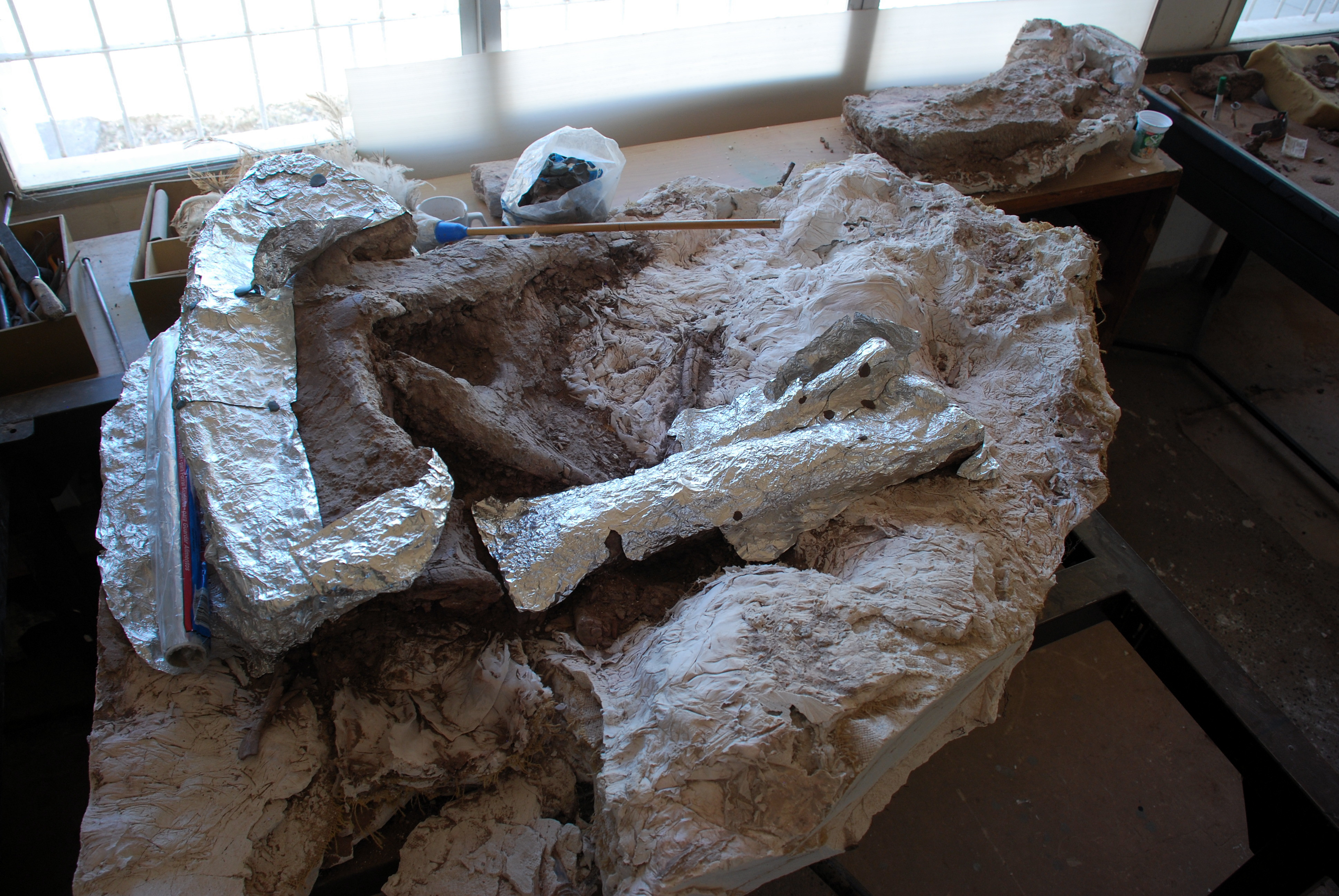 The labortory of the Natural Science Museum at El Chocón, in the northwestern Argentine Patagonia (the Comahue region). Fossil of Scorpiovenator